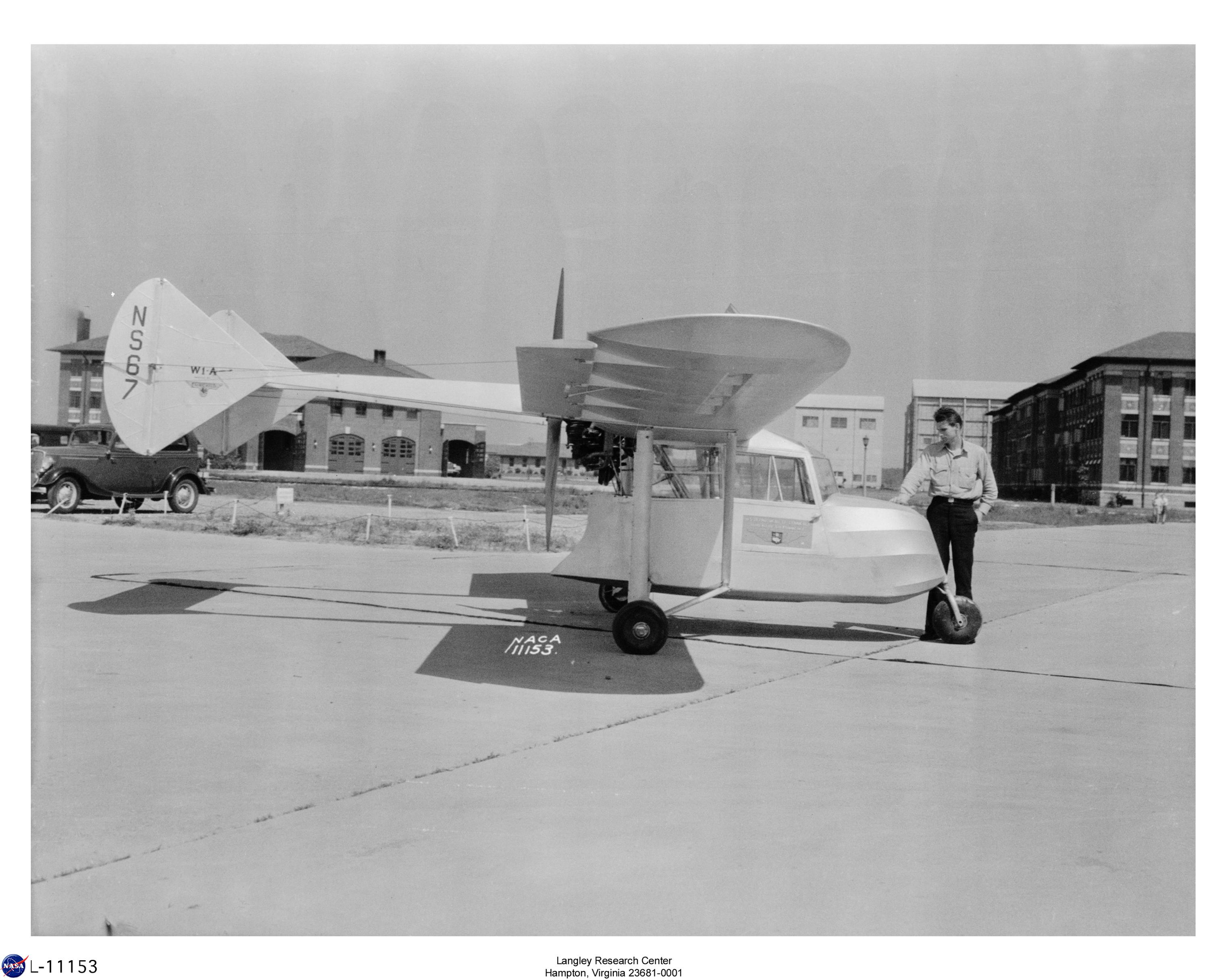 Weick W-1A: Fred Weick's homebuilt W-1A of 1934, one of the first aircraft to employ tricycle landing gear. Weick and a group of nine other Langley engineers built this small experimental airplane in their spare time to study the special needs of the private flyer. The plane was eventually purchased by the Department of Commerce. After leaving the NACA (for a second and final time) in 1936, Weick incorporated many elements of the W-1 into his design of the famous Ercoupe, a small, simple-to-fly airplane built first by the Engineering Research and Development Corporation (ERCO) of suburban Washington, DC.